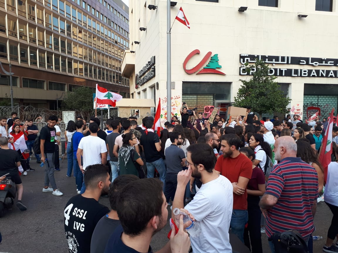 2019 protests, Beirut, Credit Libanais